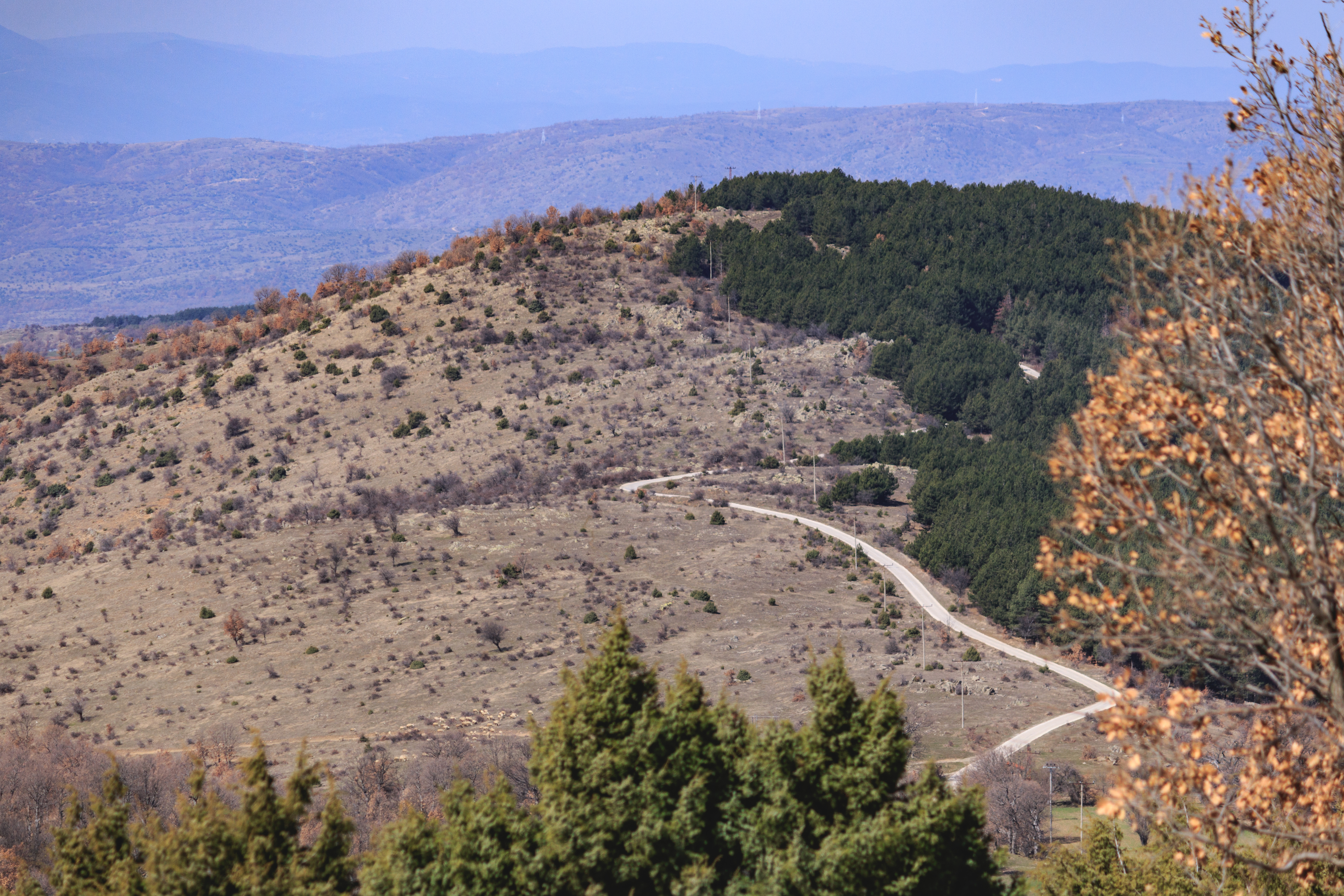 Landscape in Kozjačija Region, Macedonia